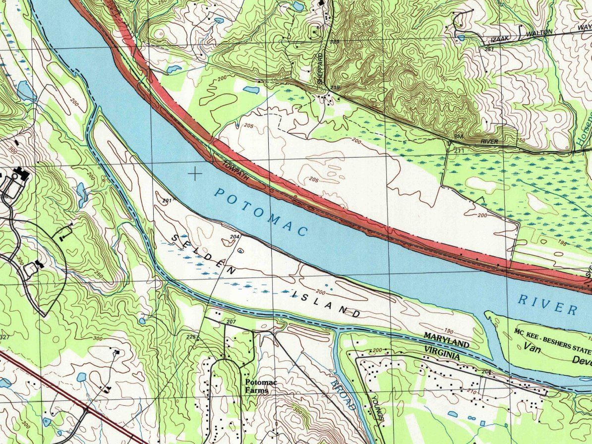 Topographic map of Selden Island, extracted from the USGS 1:24,000 series map of the Stirling quadrangle.